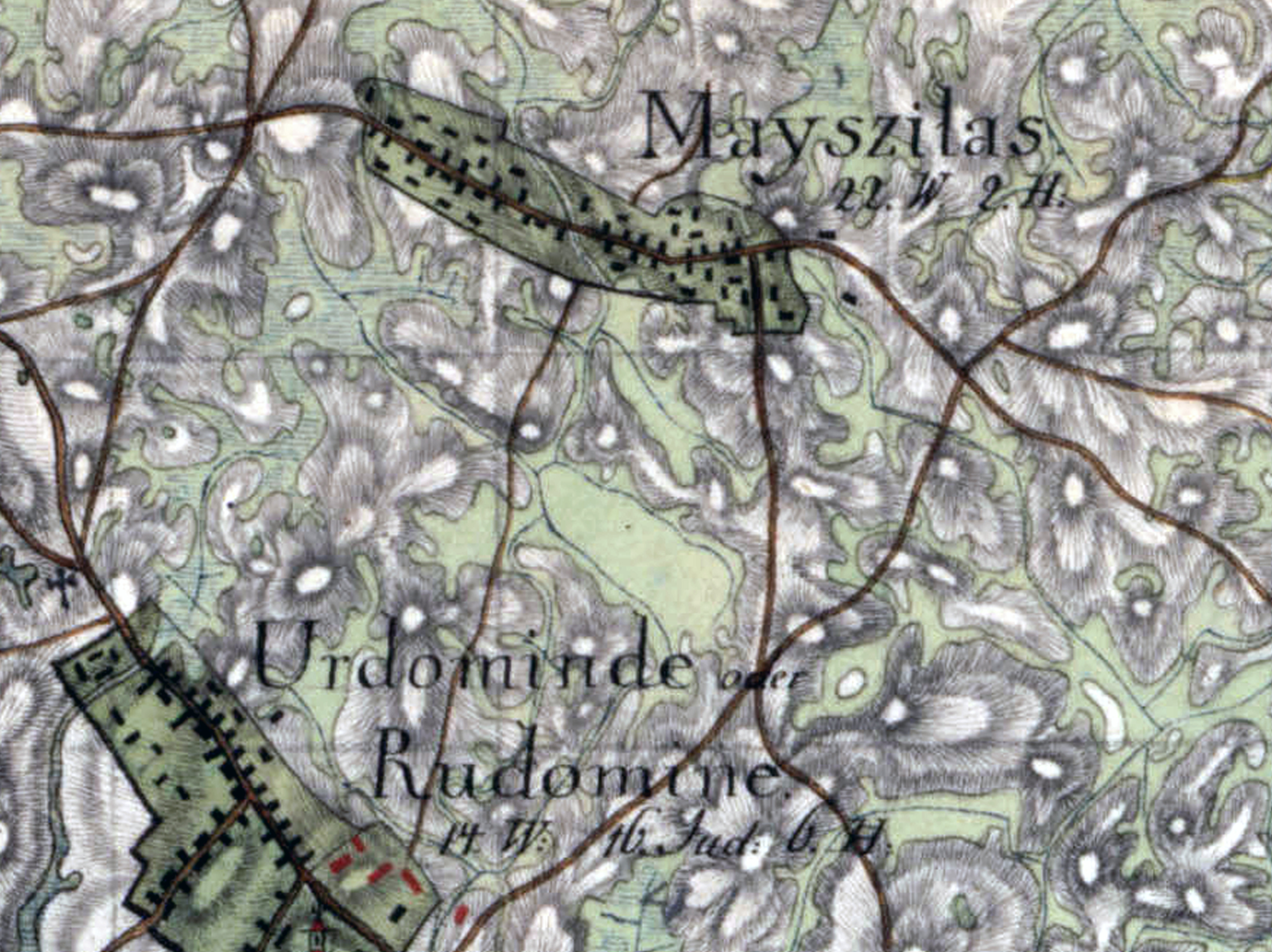 Maisymai 1798, Lithuania